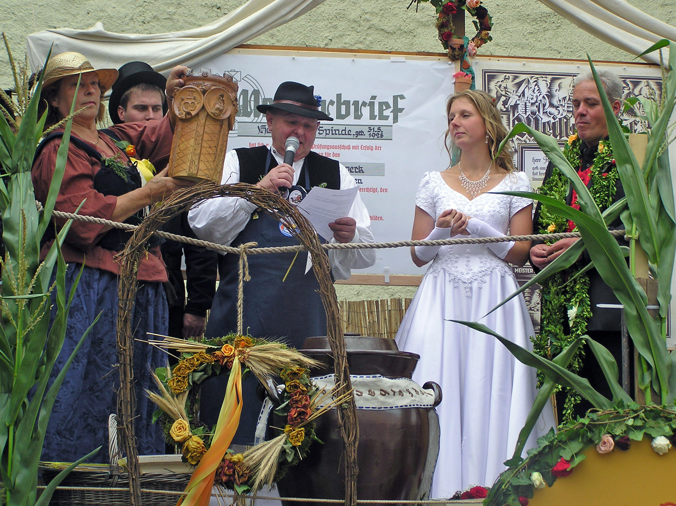 The Singing Master of Potter and the Silesian Potter Women turn over the wedding cup to the bridal couple of the Silesian Potter Market 2008 in Görlitz.